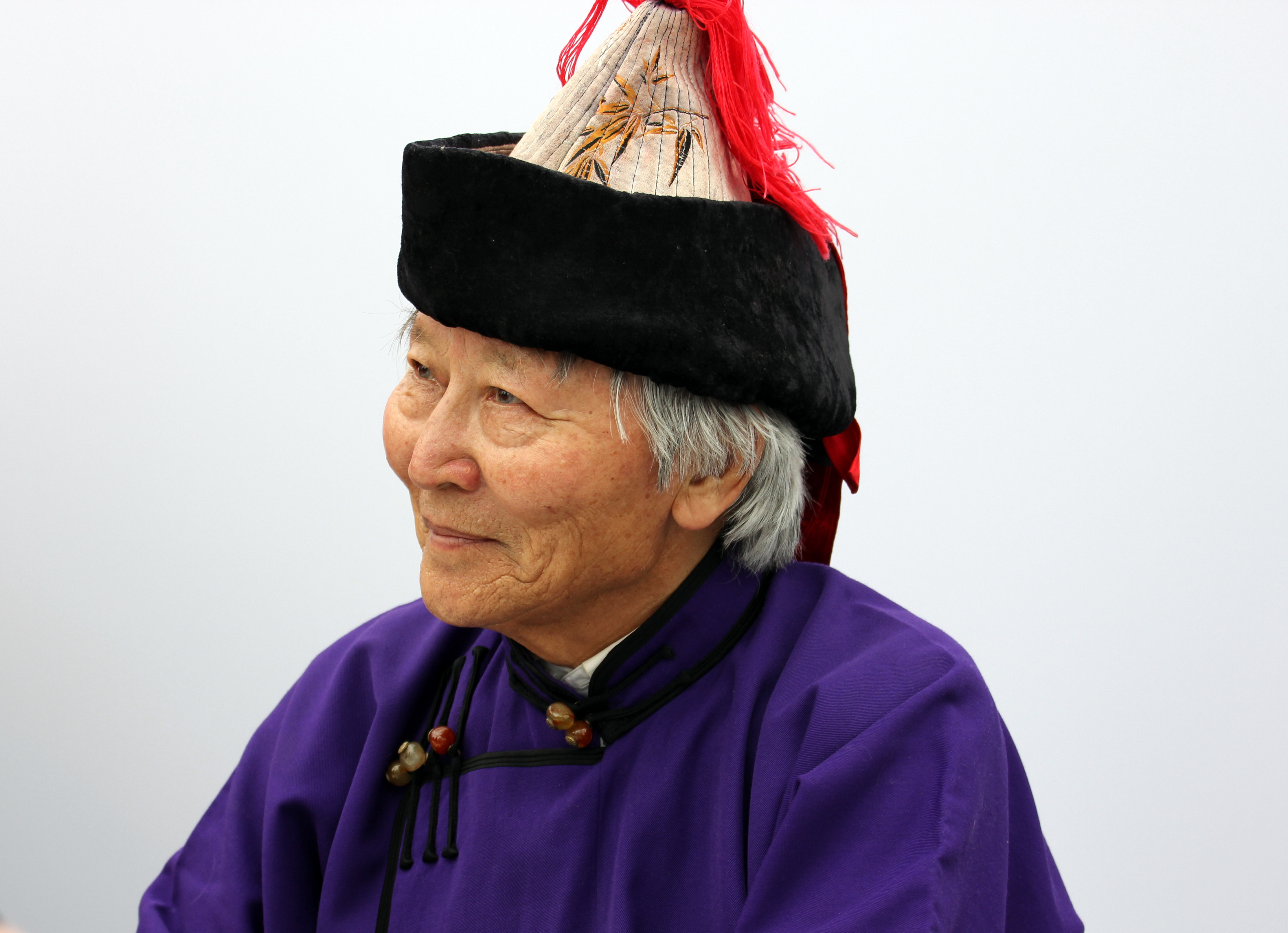 Galsan Tschinag Leipzig Book Fair 2018